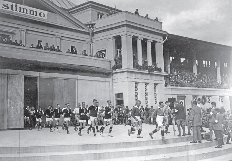 Football teams of the German Arbeiter-Turn- und Sportbund (ATSB) and the Finnish Workers' Sports Federation (TUL) entering the field before the final of the 1925 Workers' Summer Olympiad in Frankfurt am Main. The Germans won 2-0 in front of a crowd of 40,000 spectators.